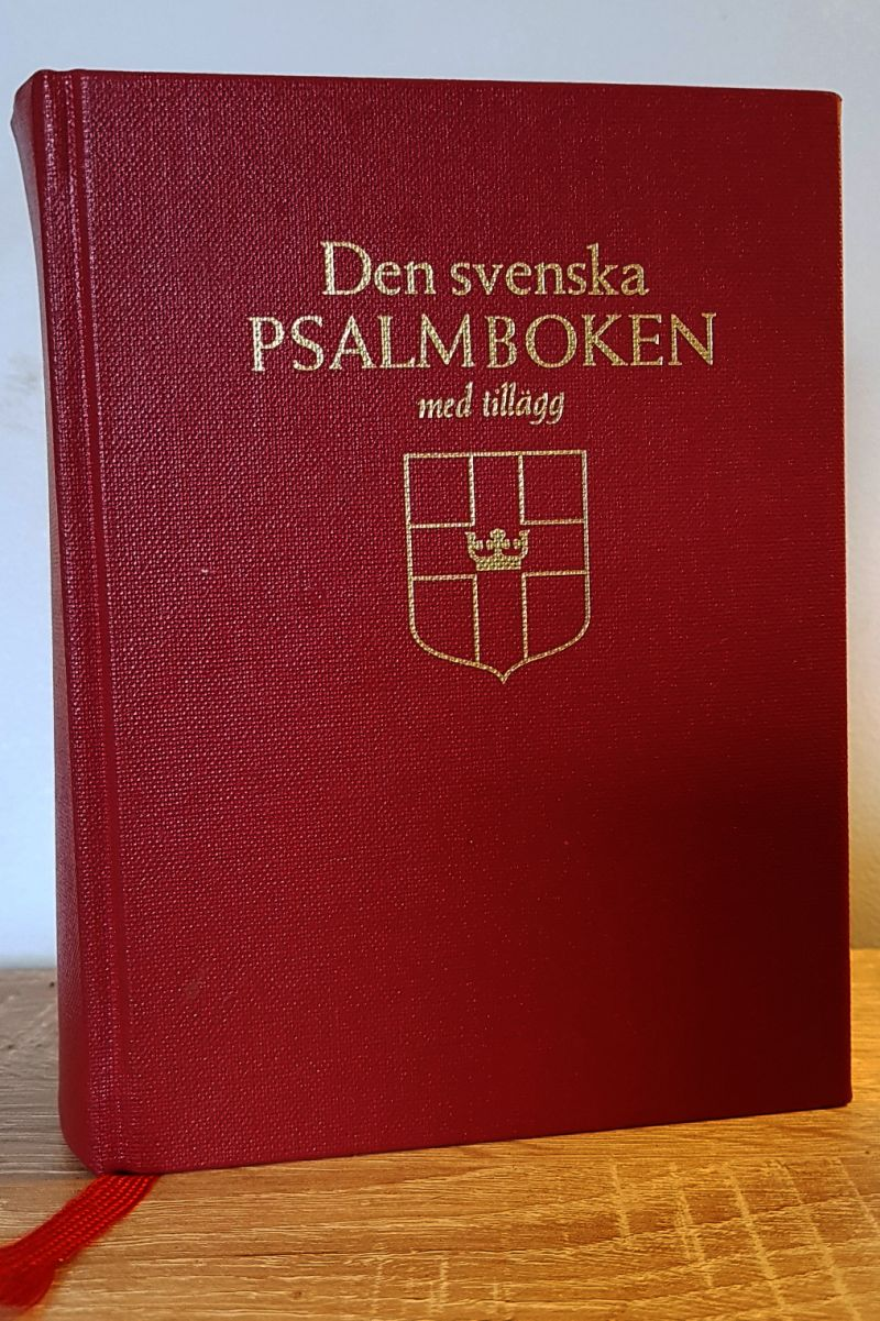 The Hymnal of Church of Sweden (2003)